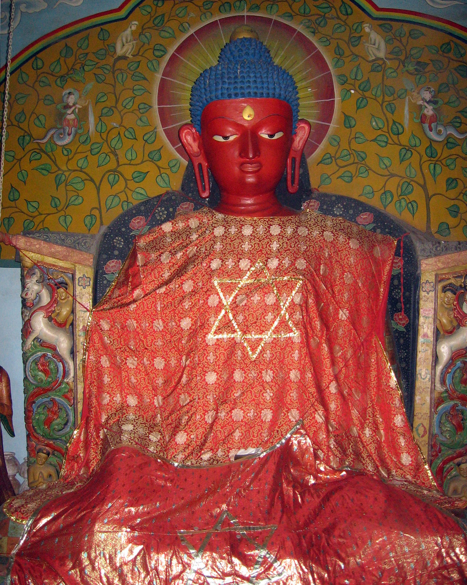 Seventeenth century stone statue of Akshobhya Buddha at Mahabu Baha, Kathmandu.